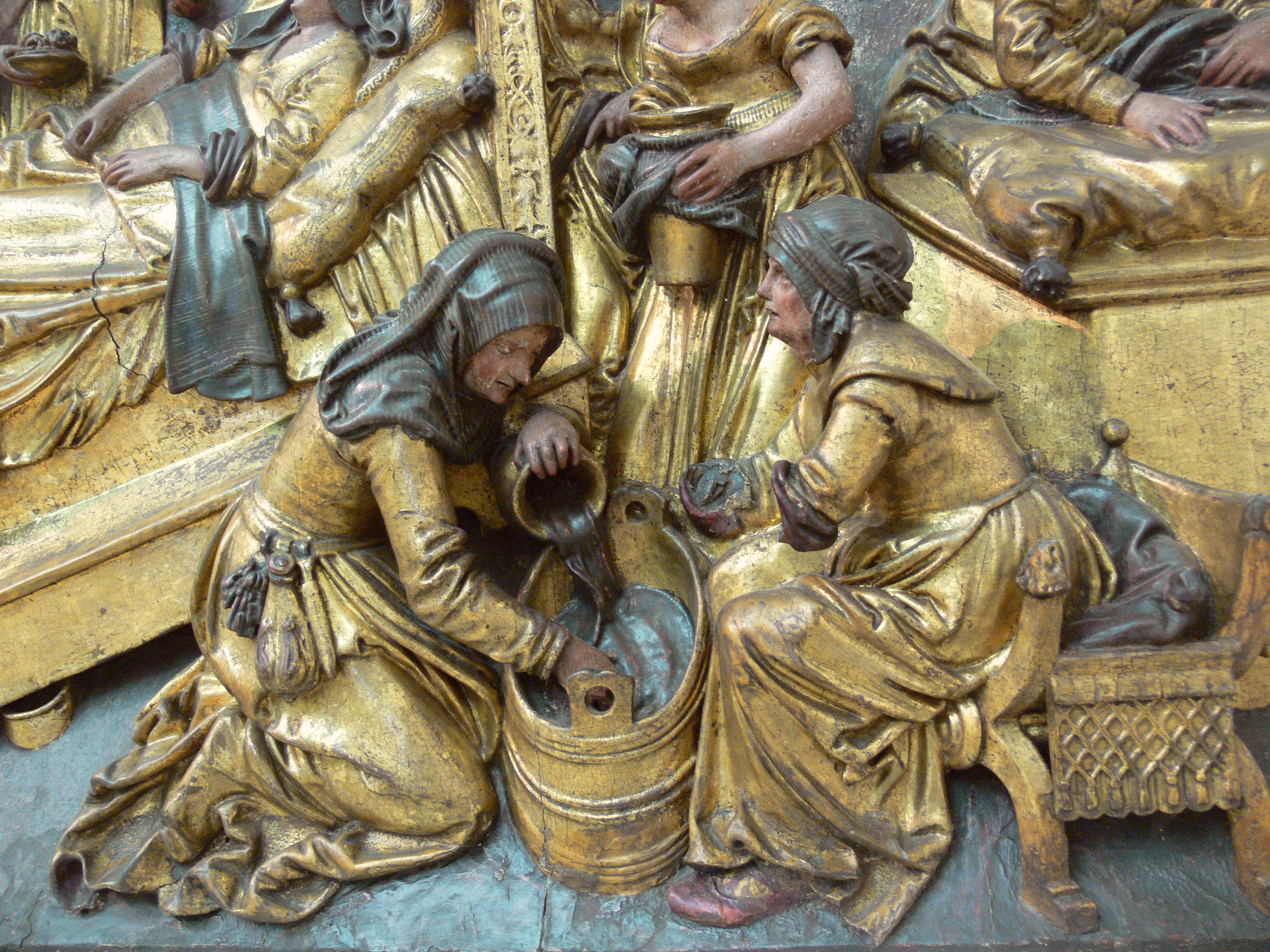 Detail from Birth of Mary; Augsburg c. 1520, limewood with original gold and colours